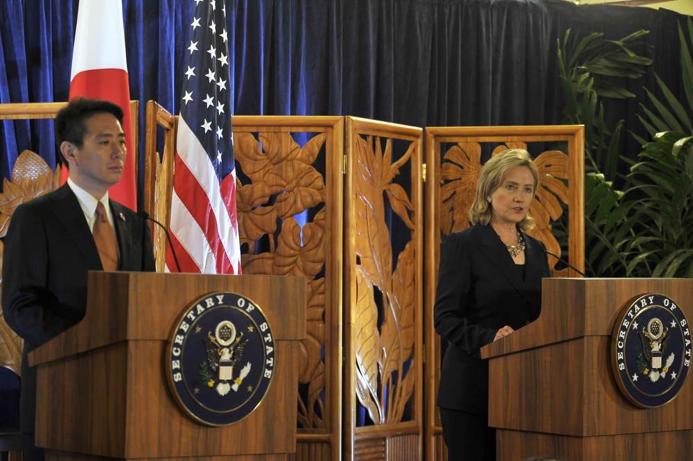 HONOLULU, Hawaii (Oct. 27, 2010) Japan Foreign Minister Seiji Maehara listens as Secretary of State Hillary Rodham Clinton answers questions about their meeting at the Kahala Resort and Hotel. During their meeting, Clinton and Seiji discussed the Japanese-American alliance, U.S. forces in Japan and the overall Asia-Pacific strategy. Hawaii is Clinton's first stop on a scheduled trip to Vietnam, Cambodia, Malaysia, Papua New Guinea, Australia, New Zealand and China. (U.S. Air Force photo by Tech. Sgt. Cohen A. Young/Released)